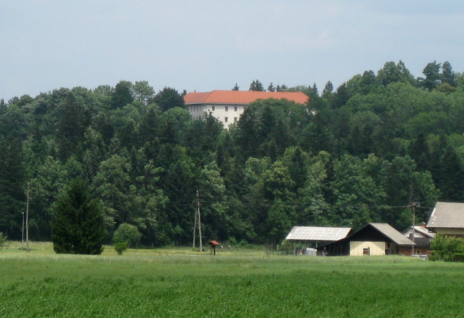 Ig castle, Slovenia